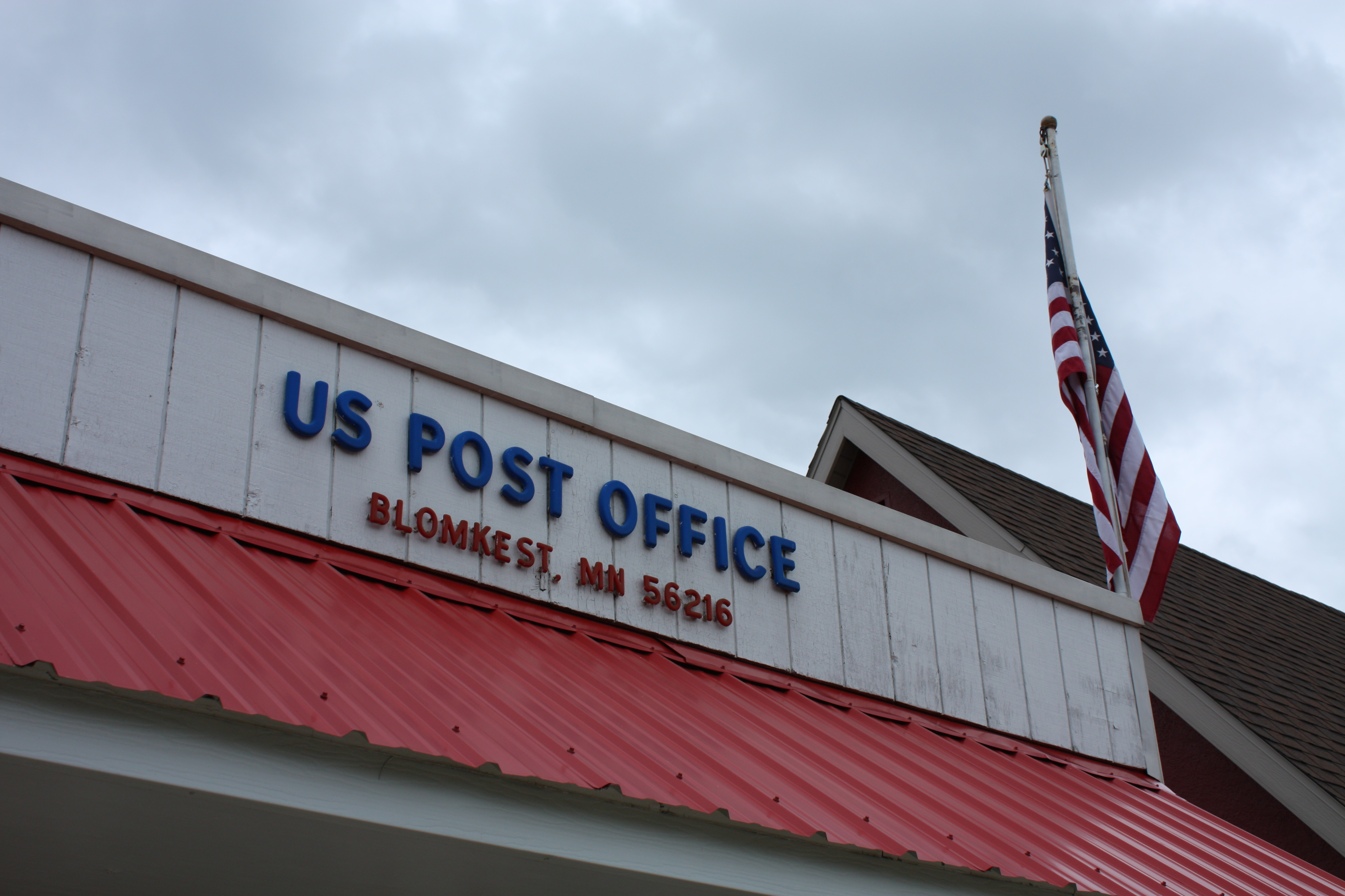 The Post Office in Blomkest, Minnesota.